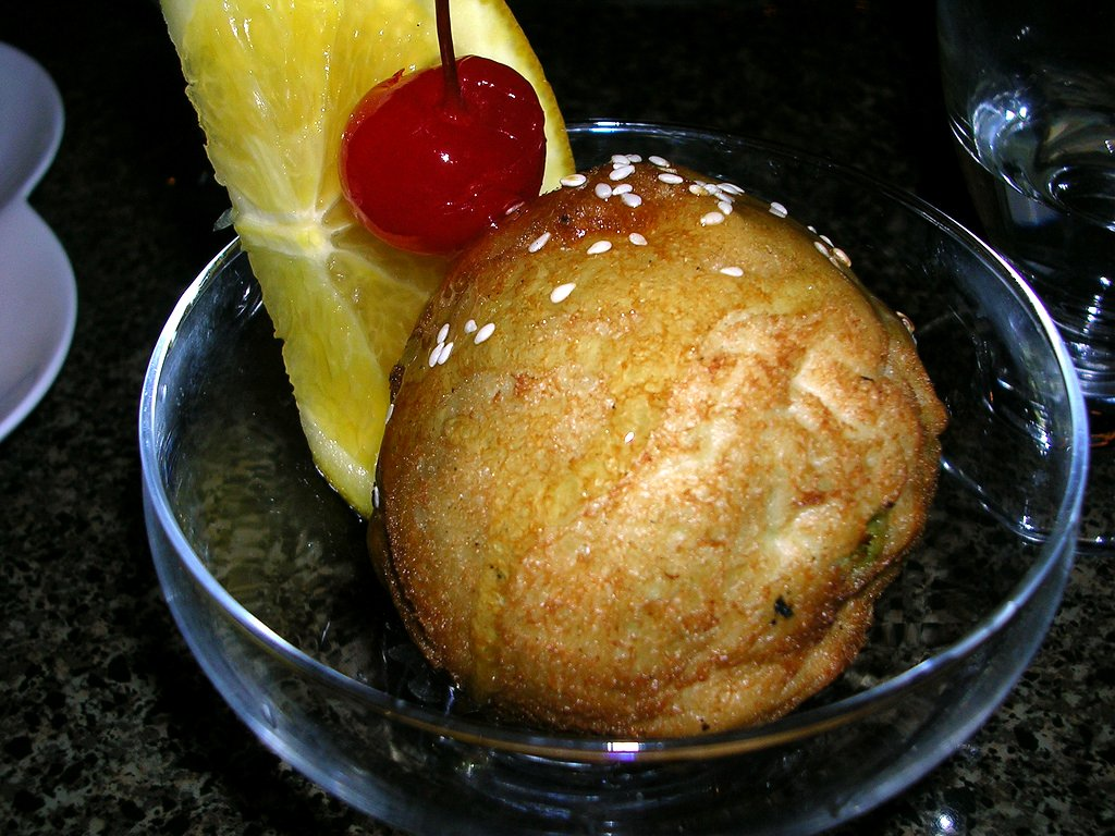 fried ice cream from a Thai restaurant in Boston, Massachusetts, United States Modified by User:ShadowHalo